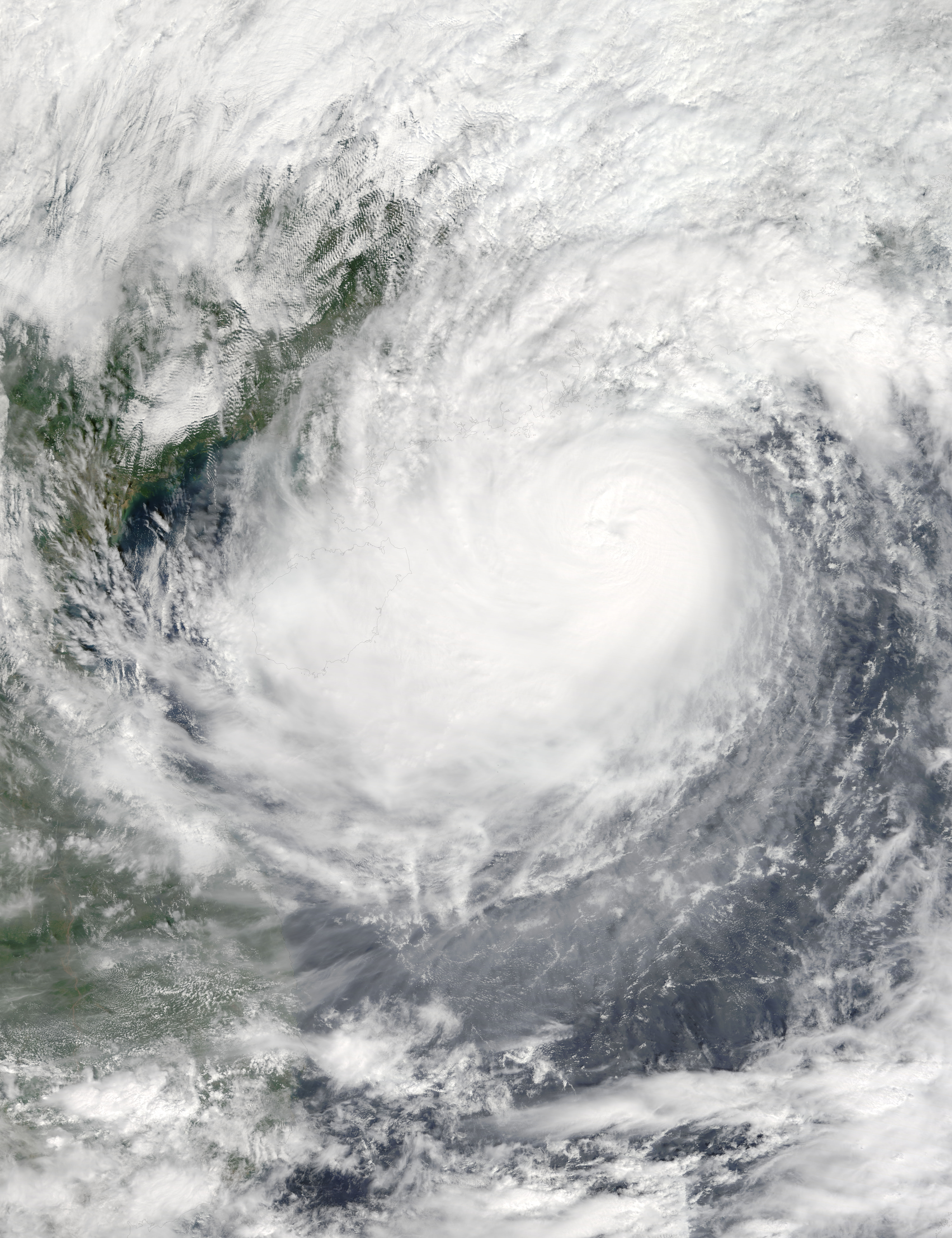 Typhoon Khanun (24W) approaching China